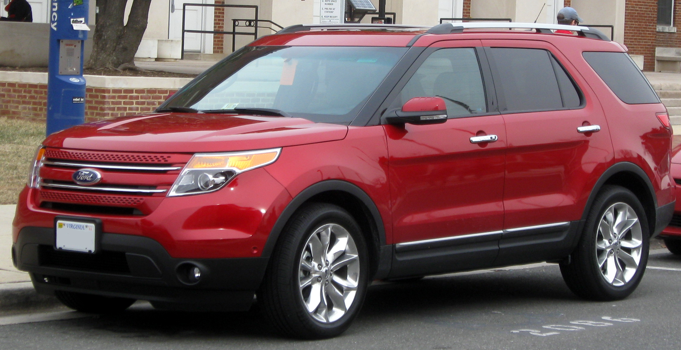 2011 Ford Explorer photographed in College Park, Maryland, USA.